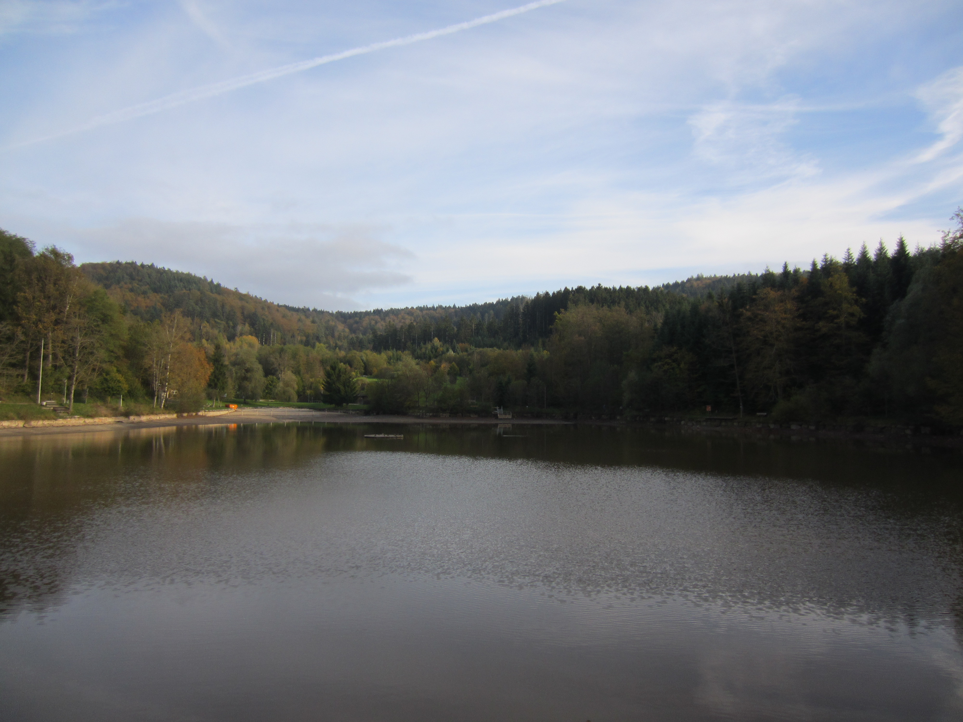 The lake Waldsee in Fornsbach